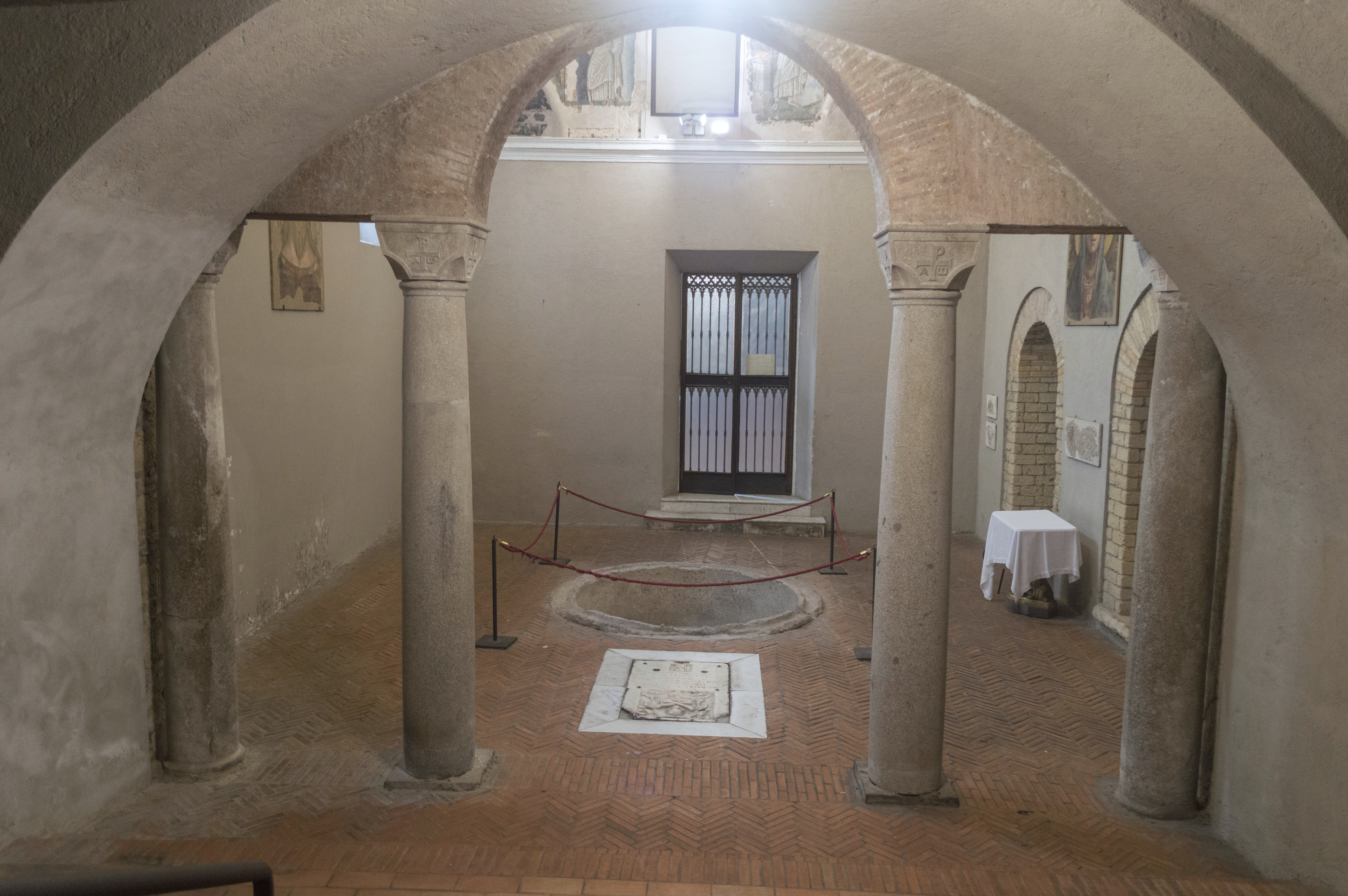 Battistero di San Giovanni in Fonte, Naples